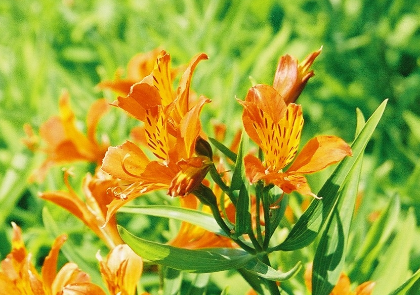 Alstroemeria aurea in the garden at Brantwood